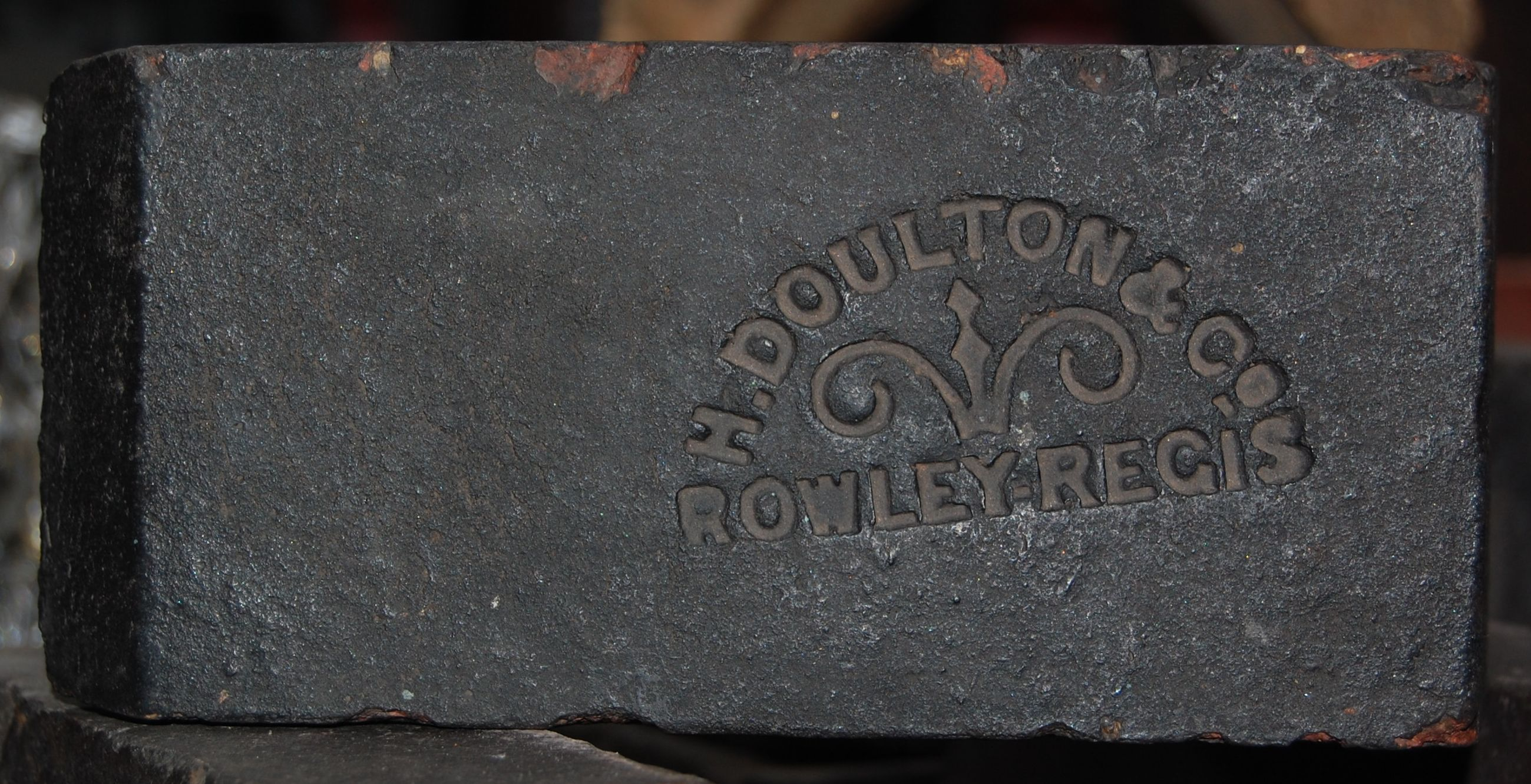 Blue engineering brick, made by H Doulton & Co. of Rowley Regis, Staffordshire, and bearing their stamp; displayed at the Black Country Living Museum.